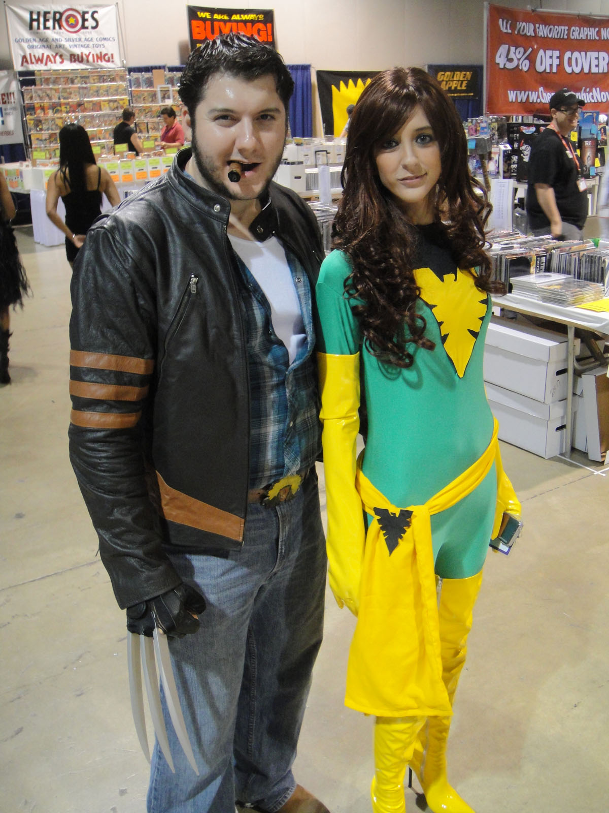 photo 2011 Pop Culture Geek taken by Doug Kline If you're interested in higher resolution versions of my images, contact me via my profile page.